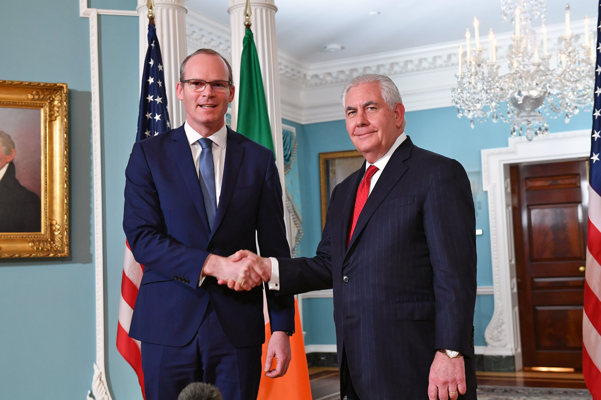 U.S. Secretary of State Rex Tillerson and Irish Deputy Prime Minister and Foreign and Trade Minister Simon Coveney address reporters at the U.S. Department of State in Washington, D.C. on February 23, 2018. [State Department photo/ Public Domain]